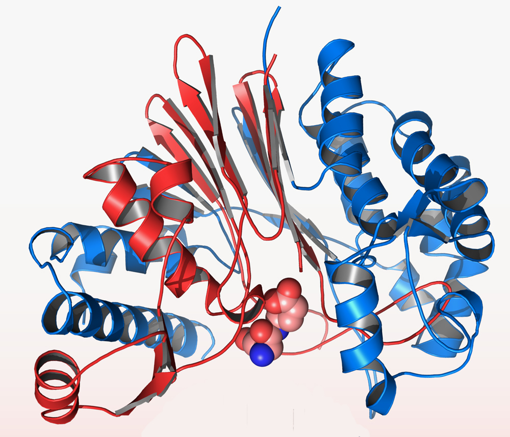 The crystal structure of the bacterium Bacillus anthracis protein CapD, pathogen of the well-known disease by Anthrax. Imaged by the Midwest Center for Structural Genomics, led by Andrzej Joachimiak.